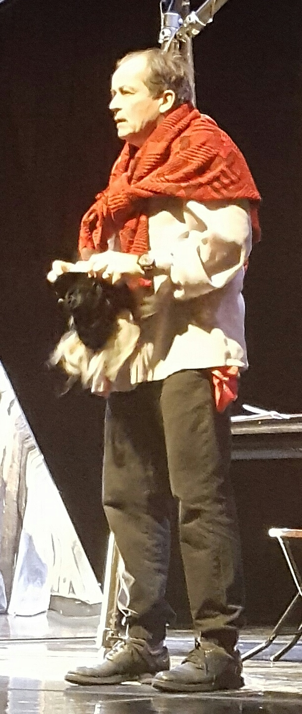 Normand Canac-Marquis photographed in Montreal, Quebec, Canada at the Salle Jean-Eudes.